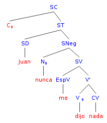 Syntax tree with "nunca" (adverb of negative polarity) occupying the negation nucleus